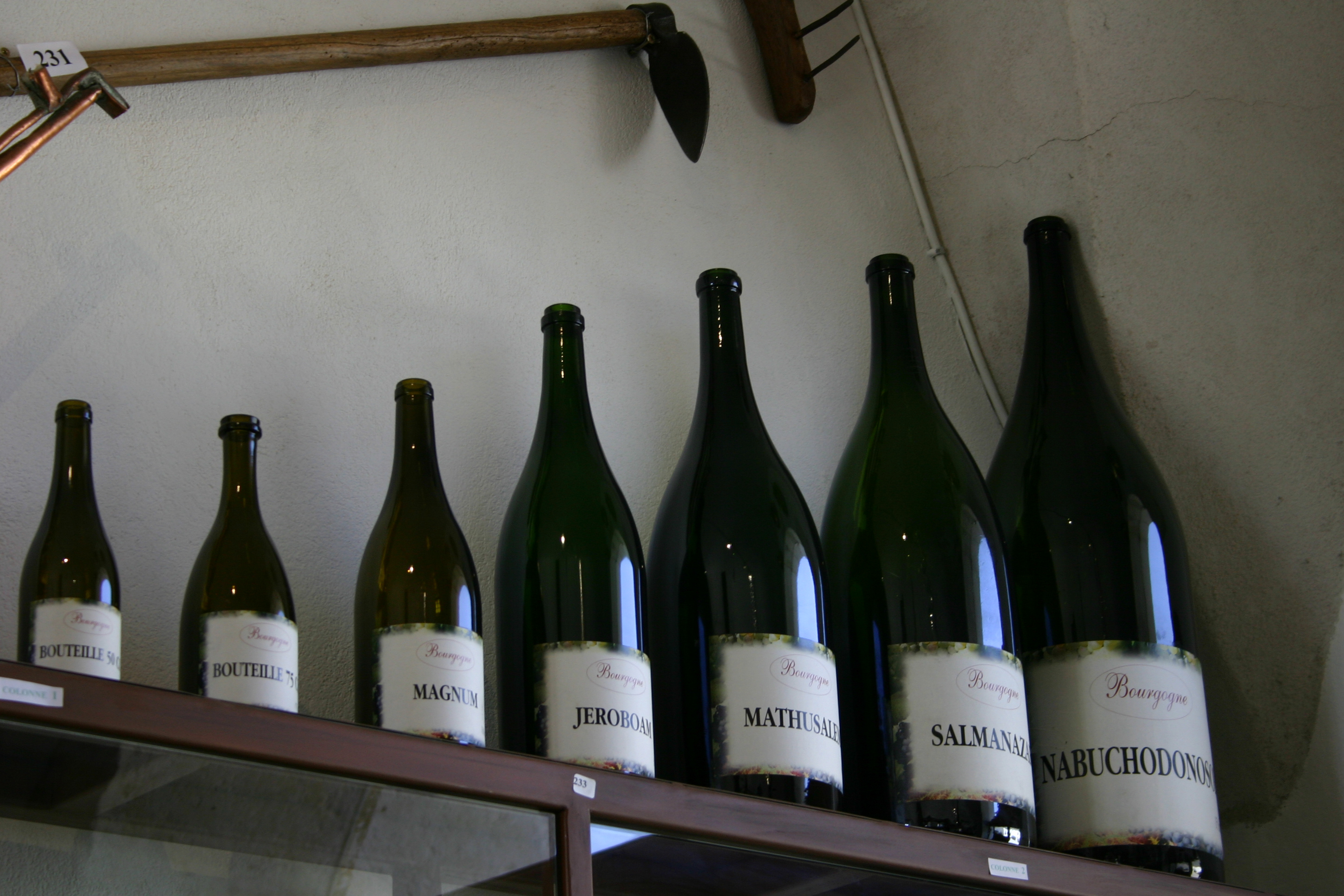 7 bottles of different volume. 0,5 litre. 0,75 litre. 1,5—2 litre (MAGNUM). 3 litres (JEROBOAM). 8 litres (MATHUSALEM). 9 litres (SALMANAZAR). 15 litres (NABUCHODONOSOR). The data about volume of the bottles it's approximative, theoretical, from this article — Jéroboam.